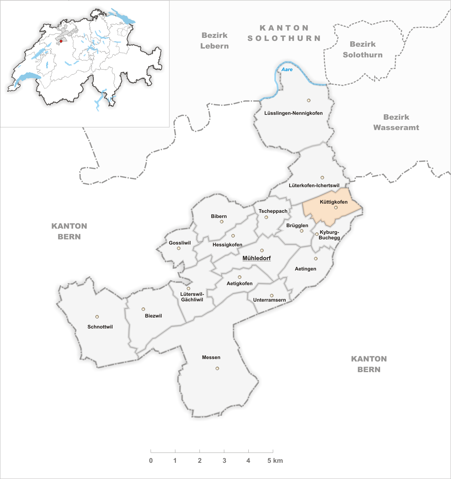 Municipality Küttigkofen